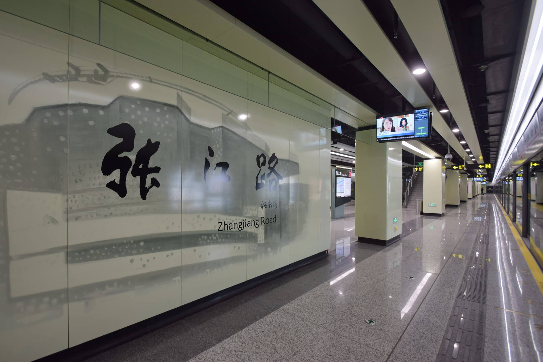 Line 13 Platform of Zhangjiang Road Station, Shanghai Metro